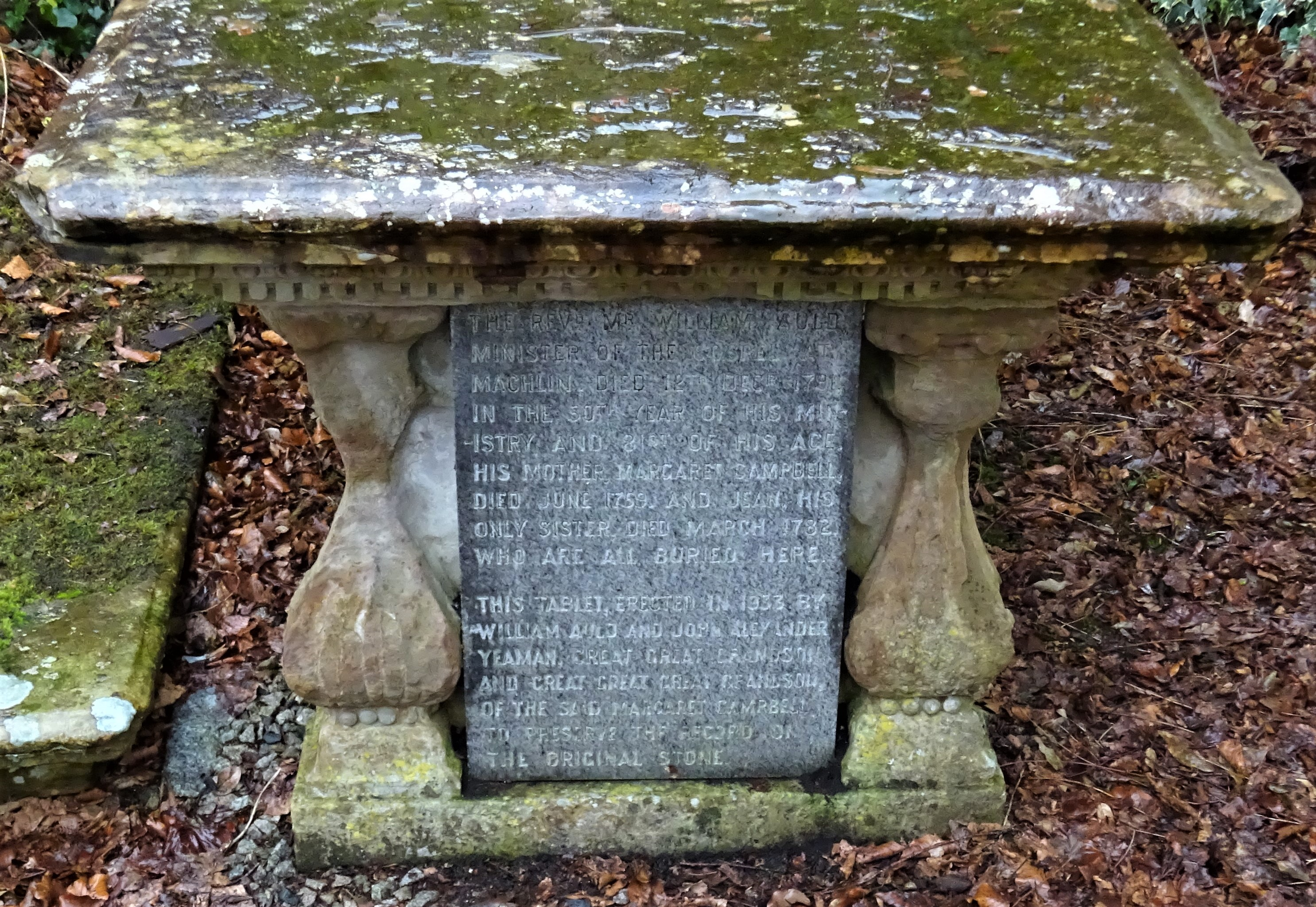 The Revd. William Auld's grave, Mauchline, East Ayrshire, Scotland. Robert Burns's 'Daddy Auld'.